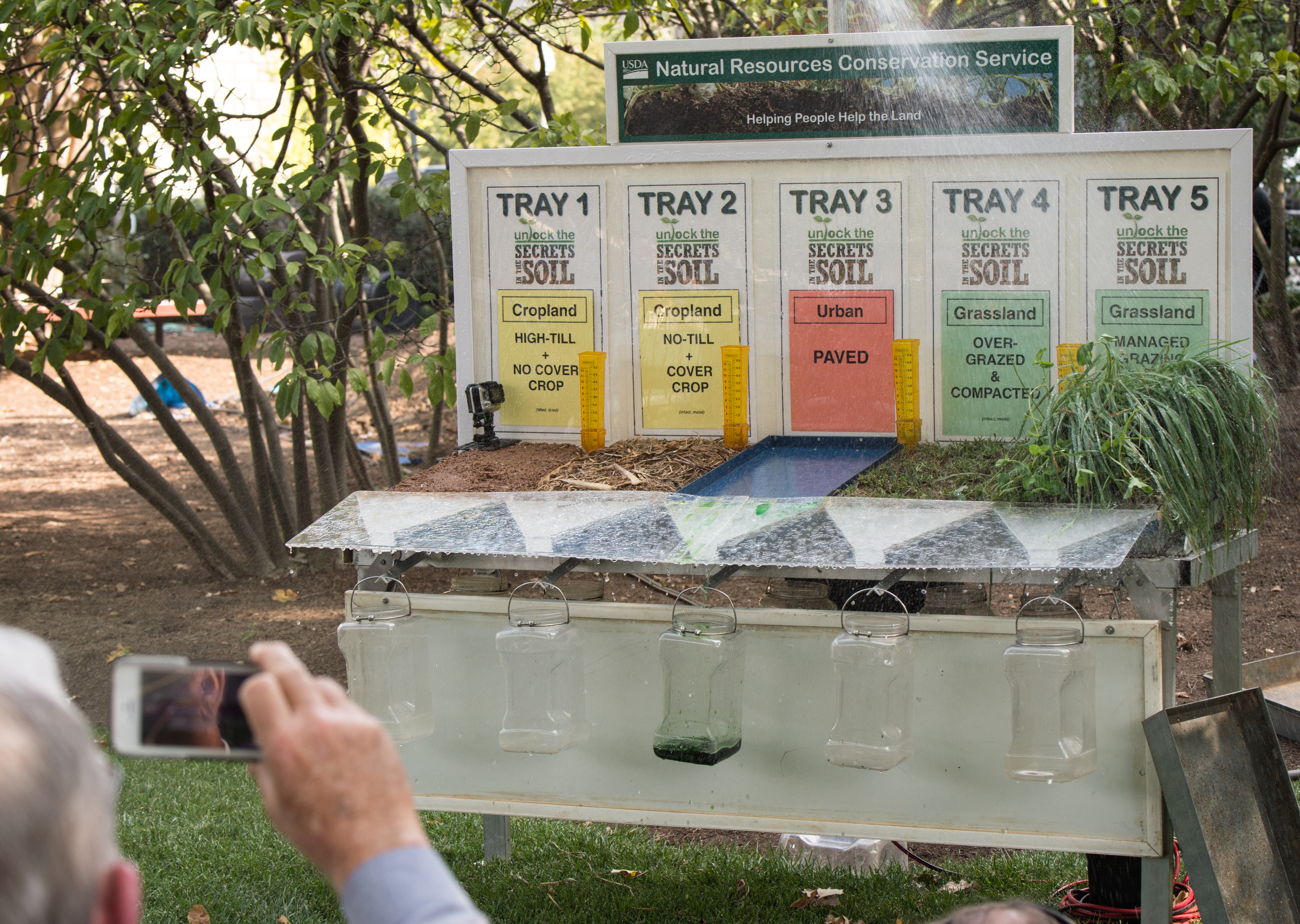 U.S. Department of Agriculture (USDA) Natural Resources Conservation Service soil health demonstration event “The Bundled Benefits of Soil Health” features a rain simulator that showers about two inches of water on five different soil surfaces, showing the pass through results in clear containers, on Thursday, September 18, 2014 in the People’s Garden, on at the USDA headquarters, in Washington, D.C. USDA Photo by Lance Cheung.